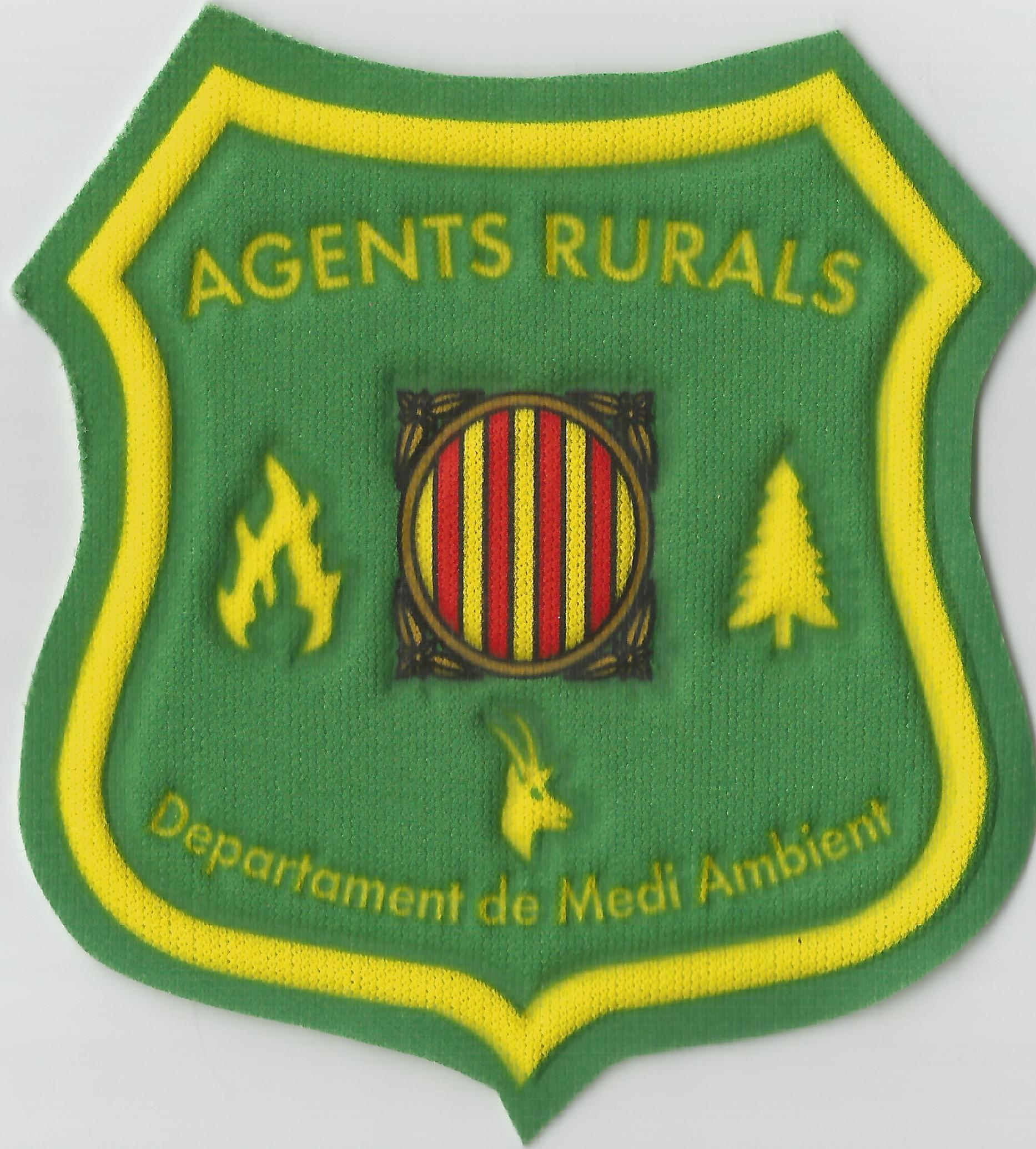 Patches of the Ranger Corps of the Government of Catalonia, period 2000-2003